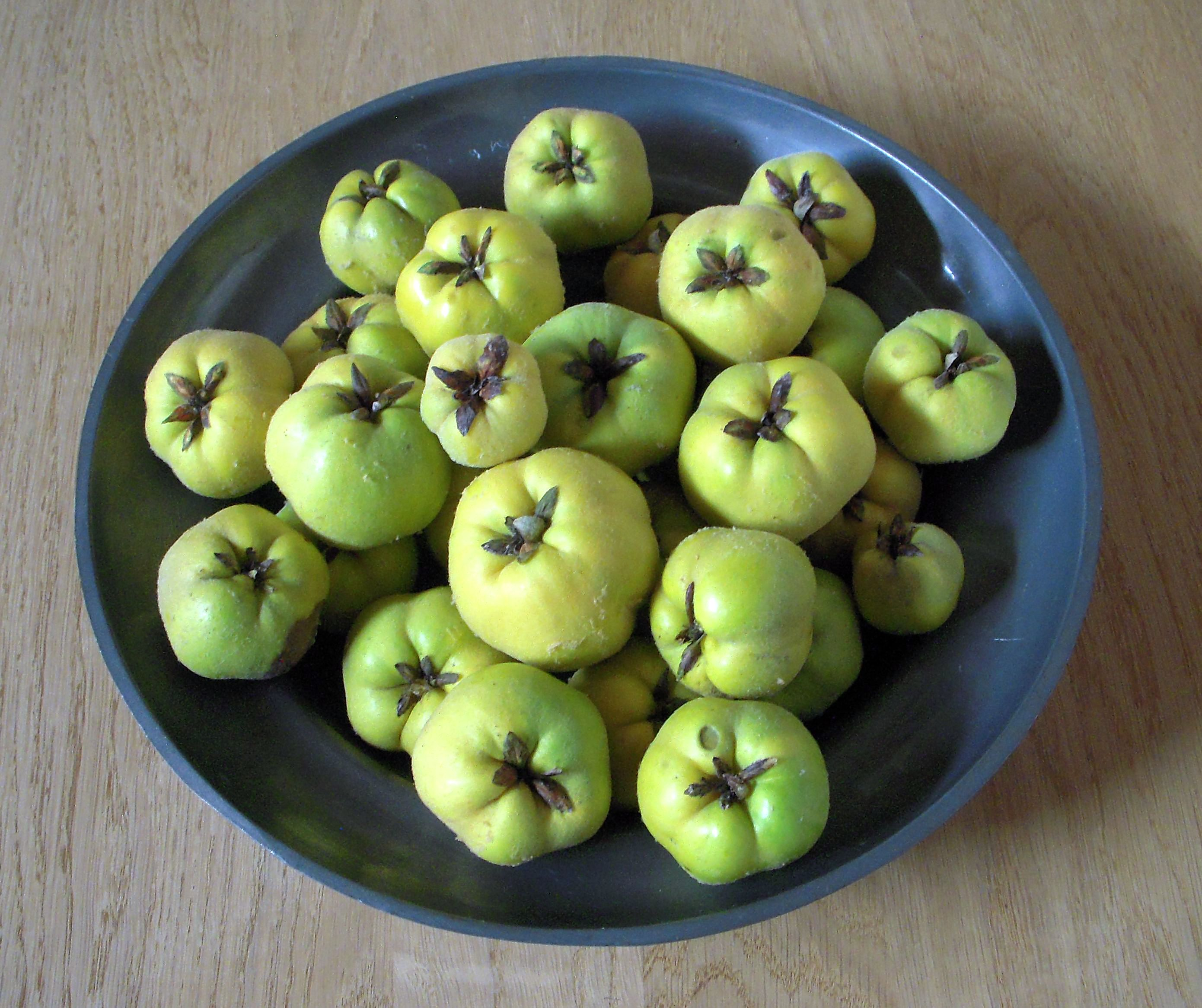 Apple Quince from Denmark